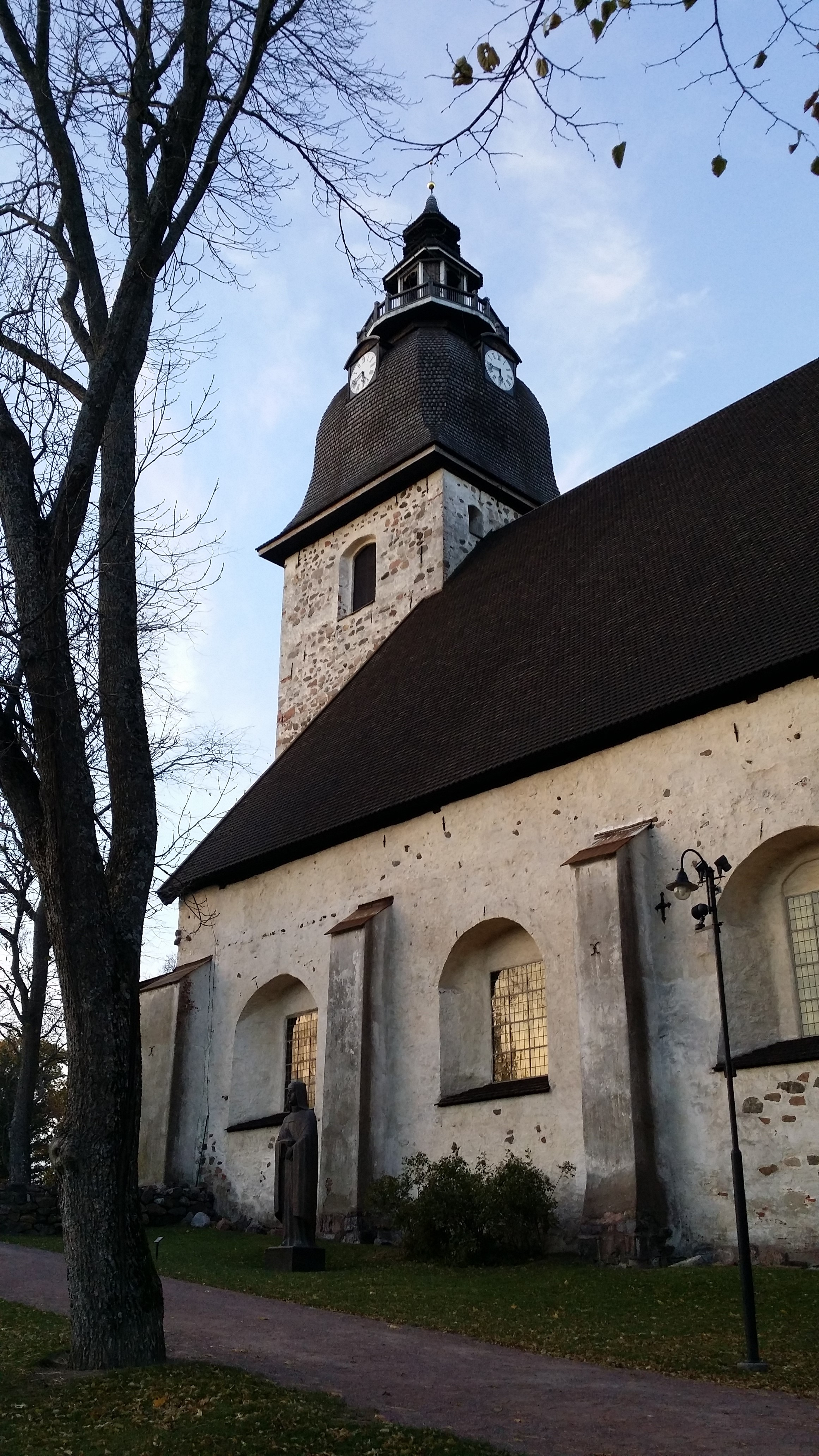 Naantali Church in Naantali, Finland